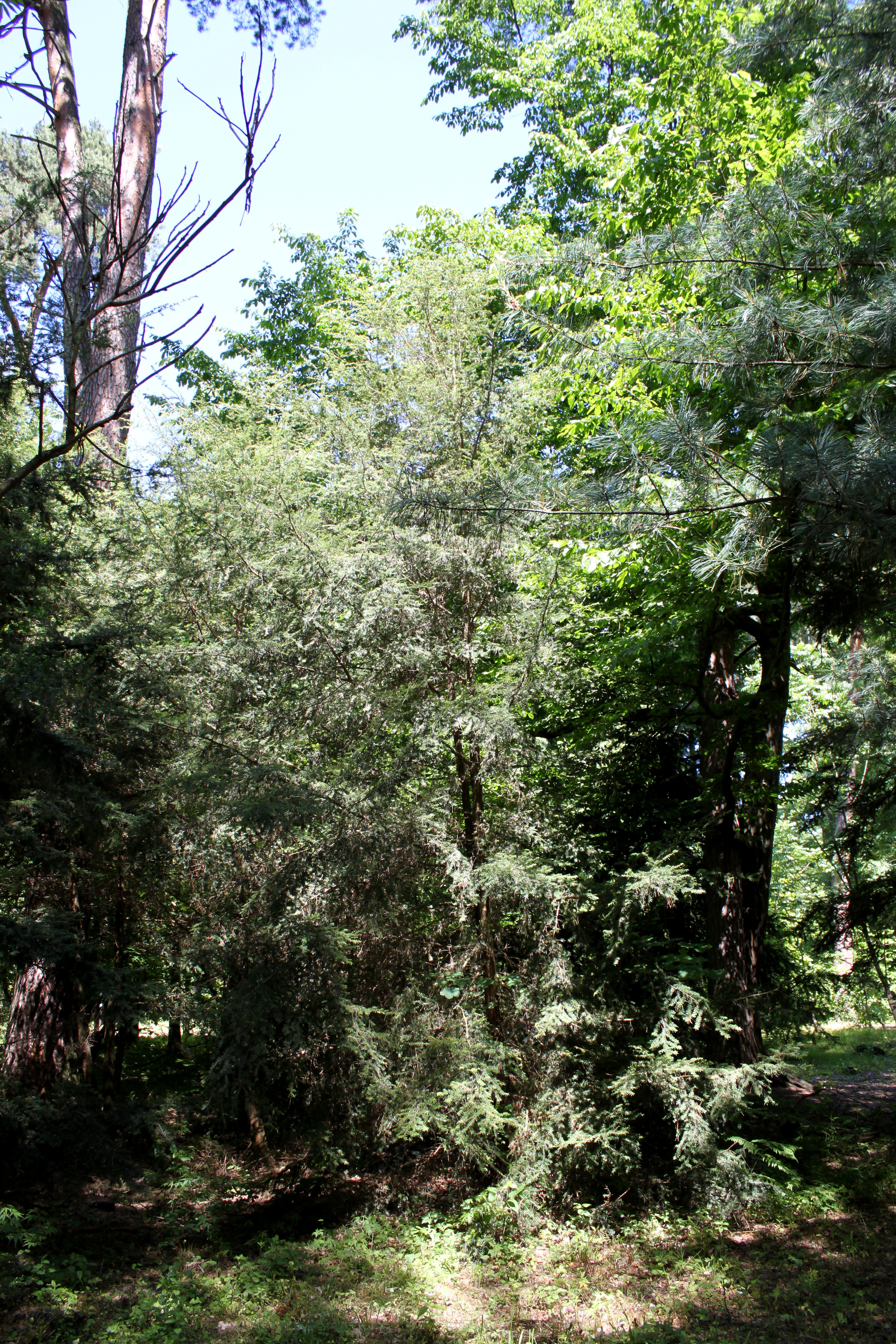 Tsuga sieboldii in Rogów Arboretum, Poland